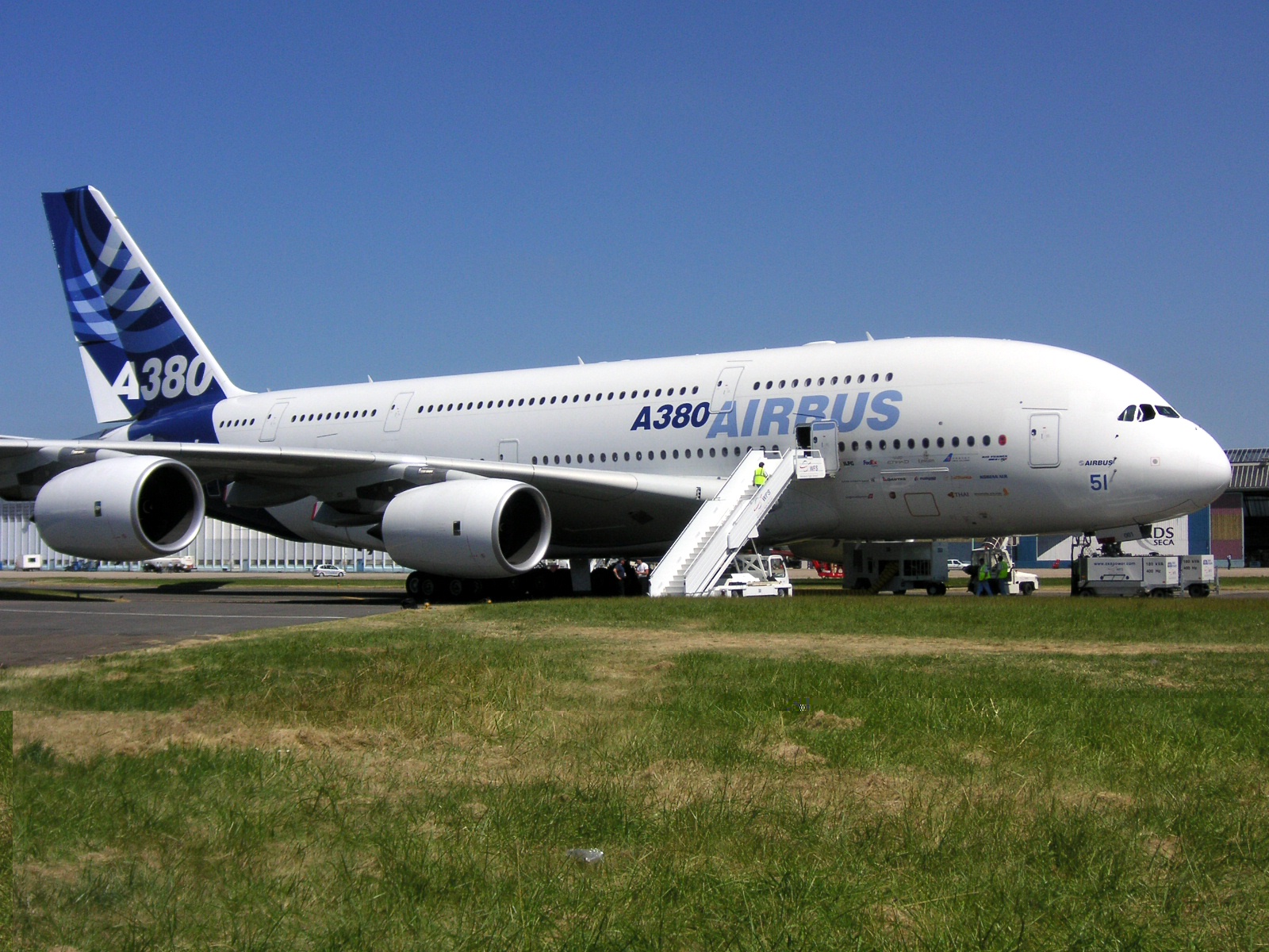 A380. Paris Air Show, 2005